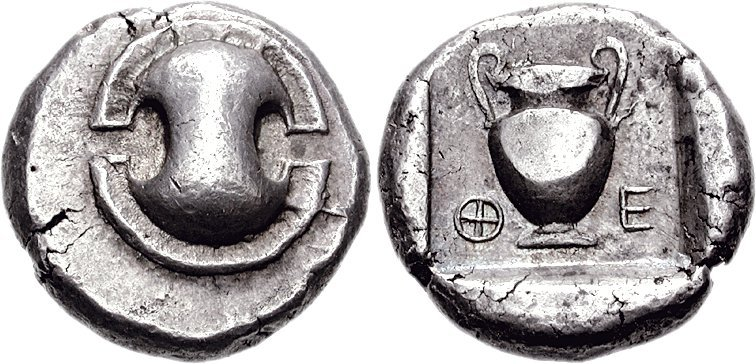 Boeotia, Thebes, Circa 450-440 BC. AR Stater (12.11 g). Boiotian shield Amphora; E-archaic Θ (retrograde) across field; all within square incuse.